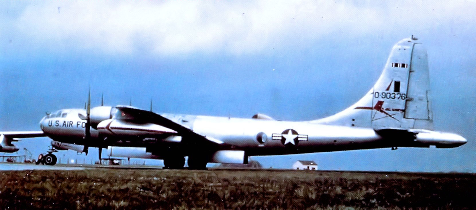 420th Air Refueling Squadron - Boeing KB-50J-125-BO Superfortress 49-376 TO MASDC. Declared excess Jun 26, 1964.